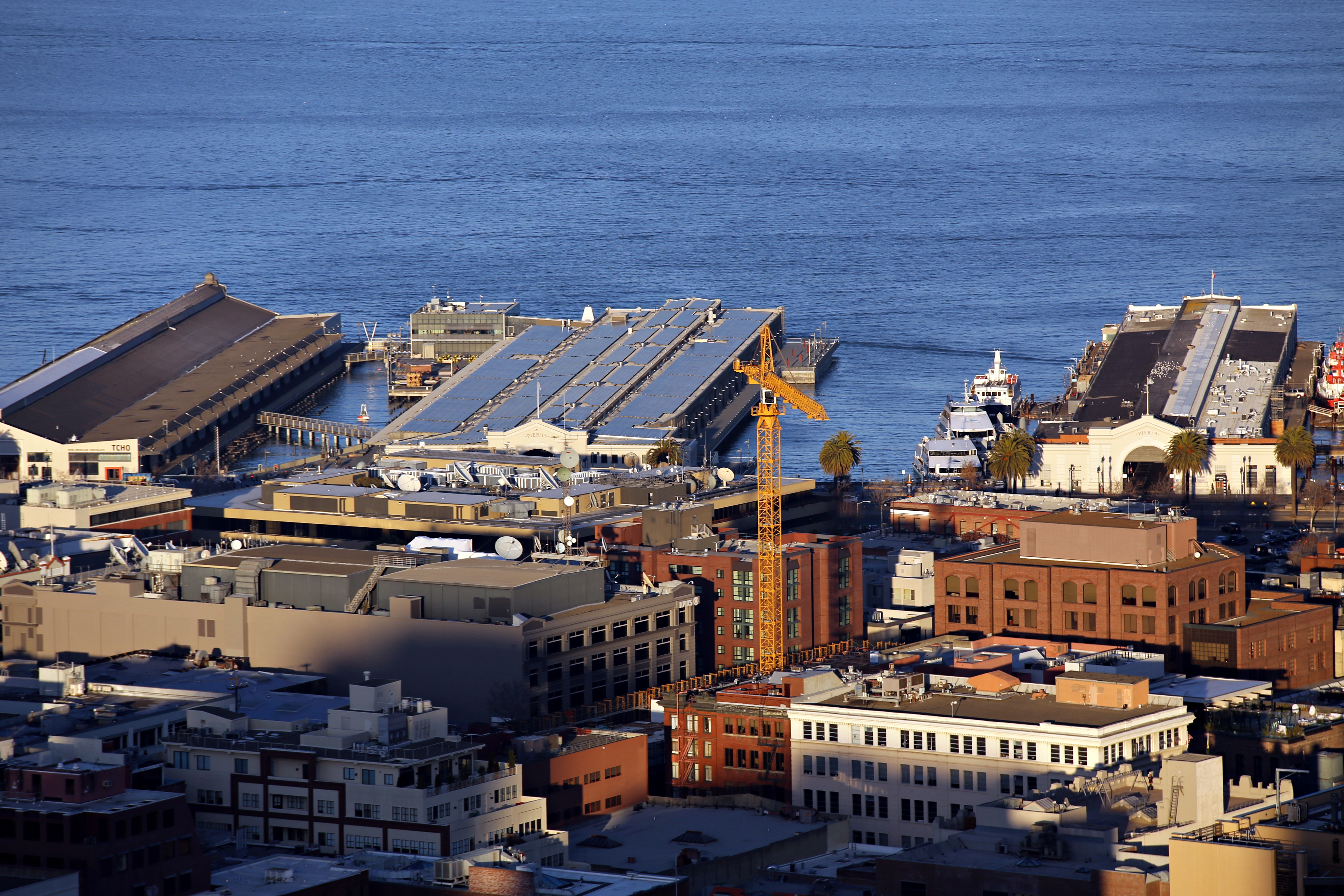 San Francisco, California, USA